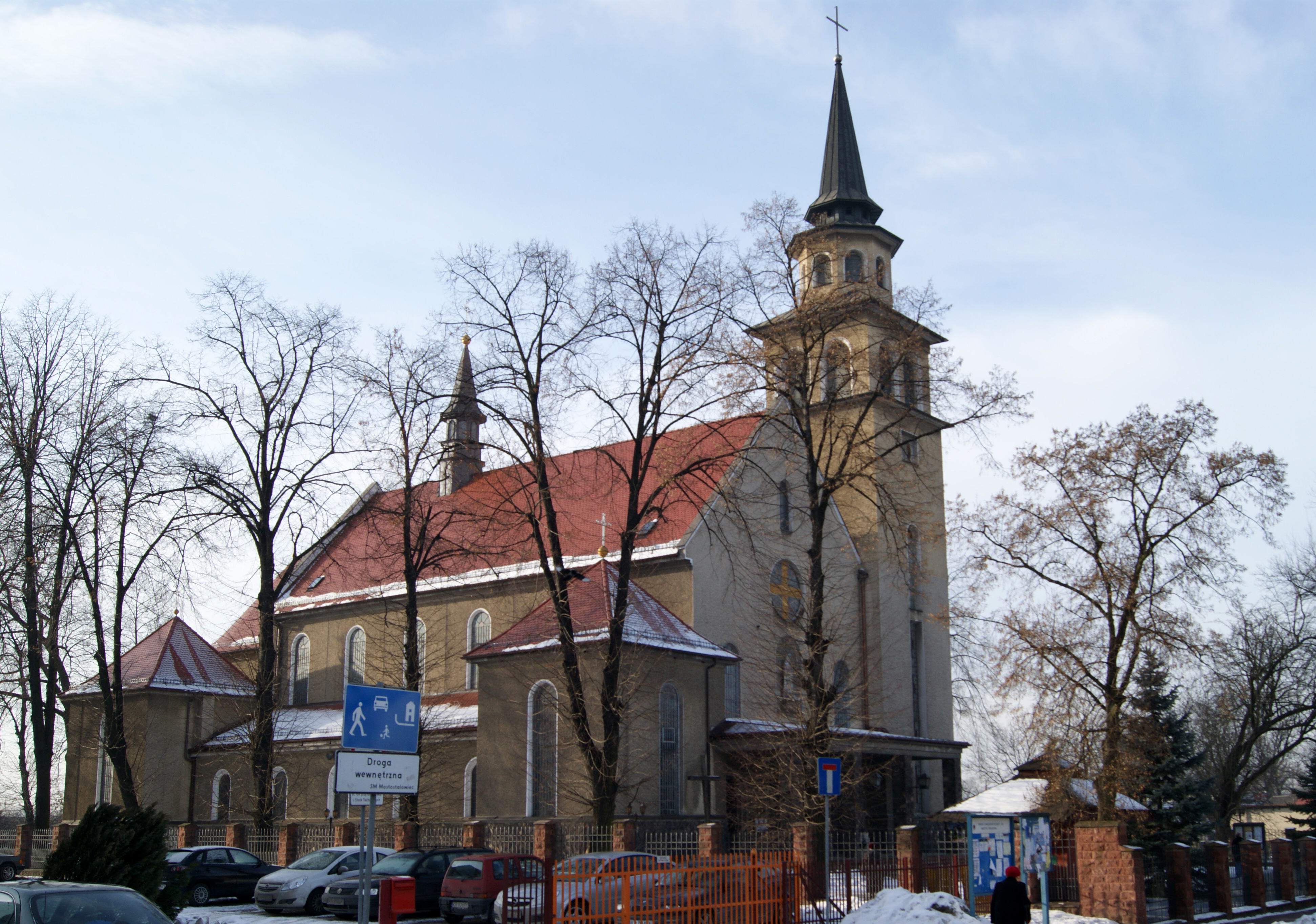 St Jude the Apostle Church, 6 Wezyka street, Nowa Huta, Krakow, Poland